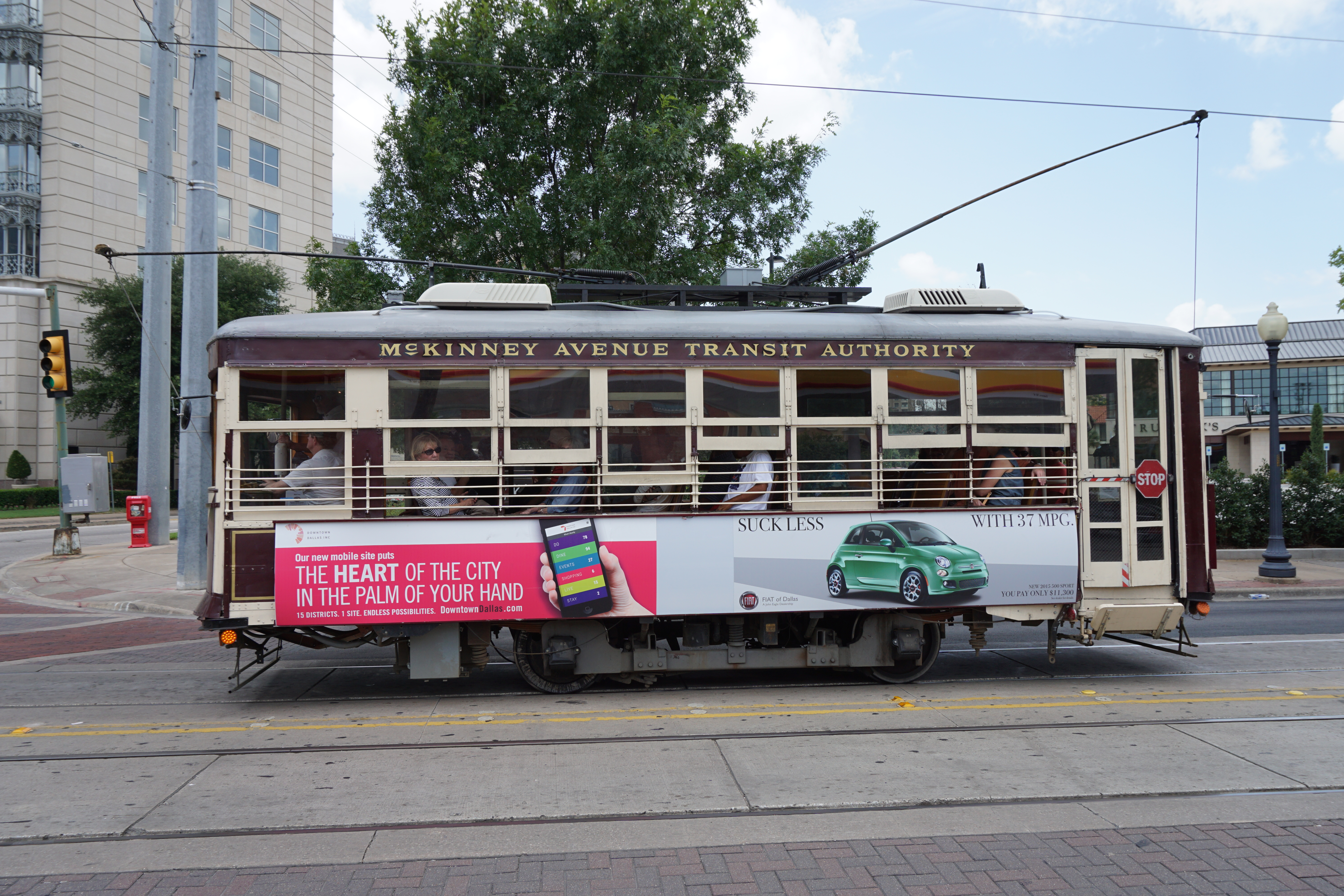 McKinney Avenue Transit Authority streetcar Petunia (No. 636) in Dallas, Texas (United States).